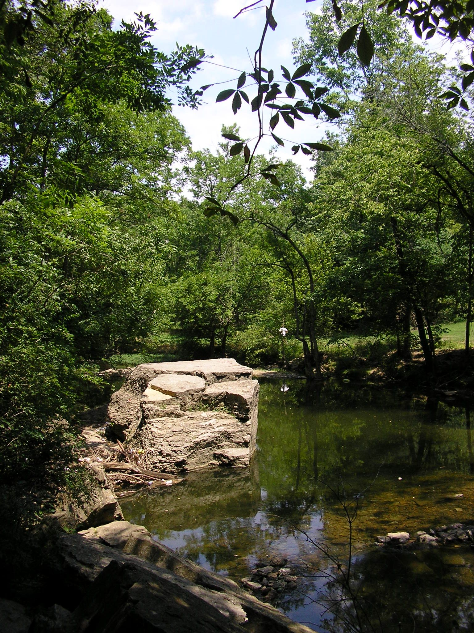 Big Rock, in Cherokee Park, Louisville, Kentucky, designed by Frederick Law Olmsted in 1887.